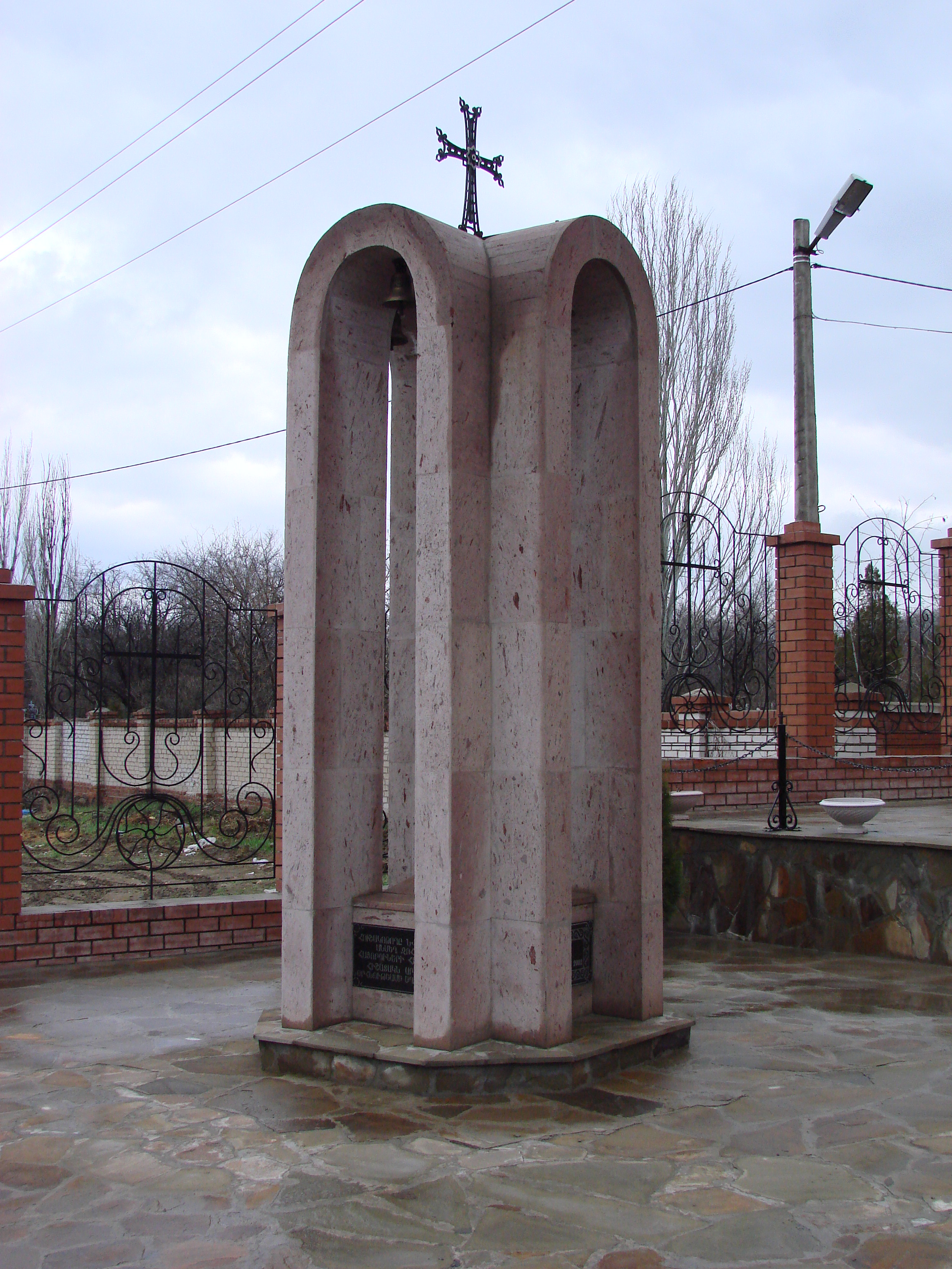 Genocide Memorial in Armenian church Sourb Gevorg in Volgograd